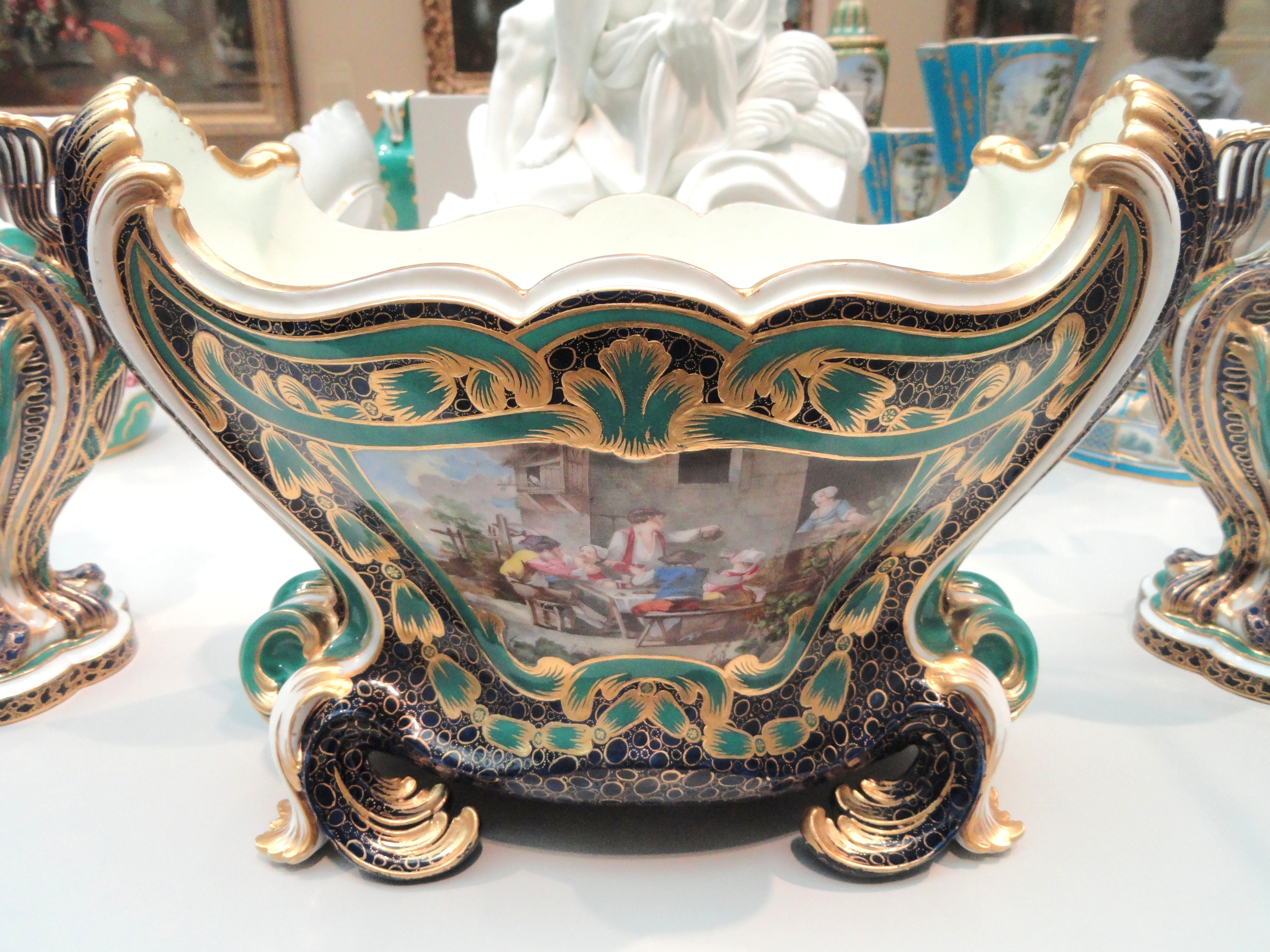 Exhibit in the Art Institute of Chicago, Chicago, Illinois, USA. This artwork is in the public domain because the artist died more than 70 years ago.